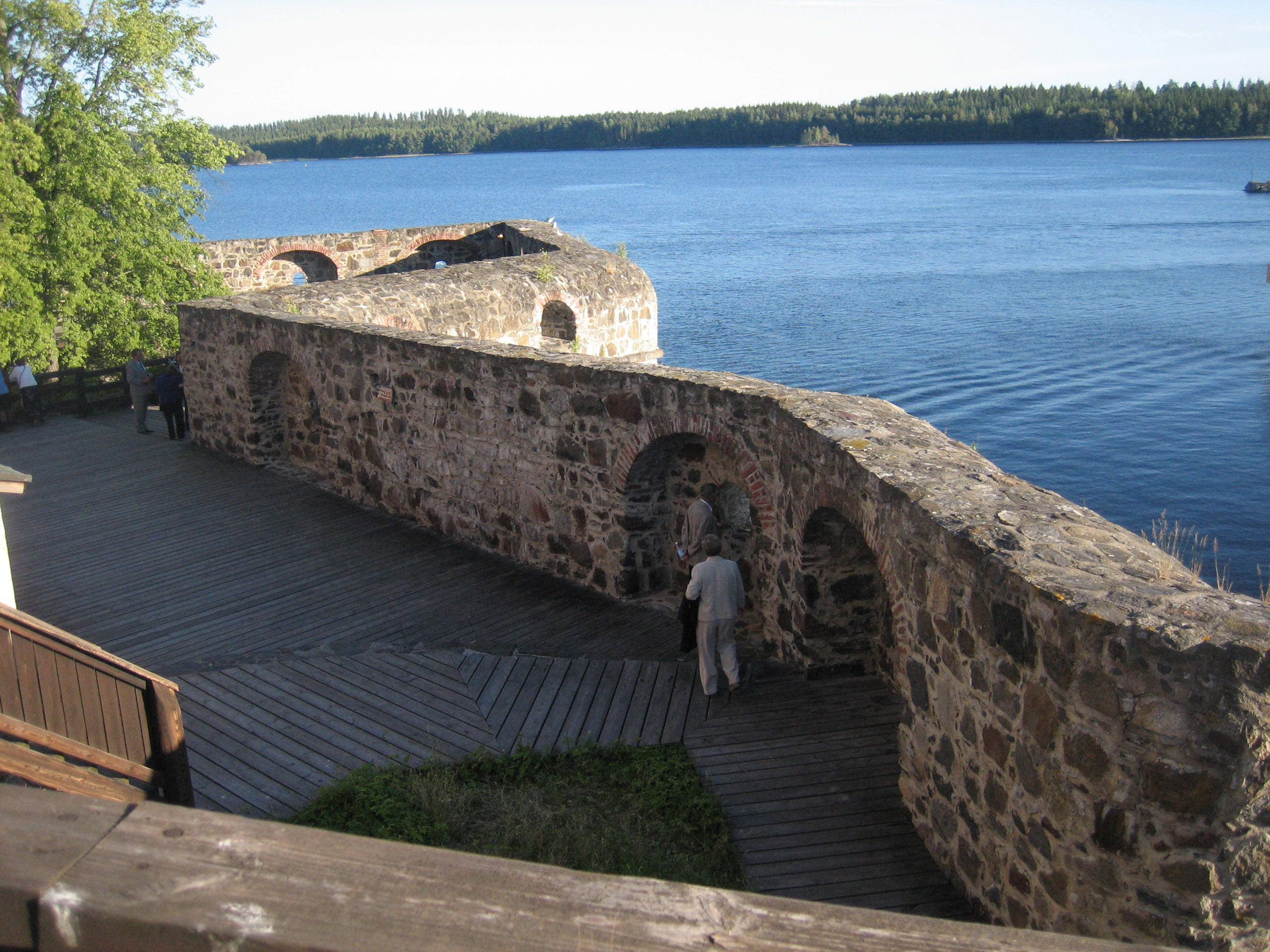 Näkymä Olavinlinnasta Savonlinnassa